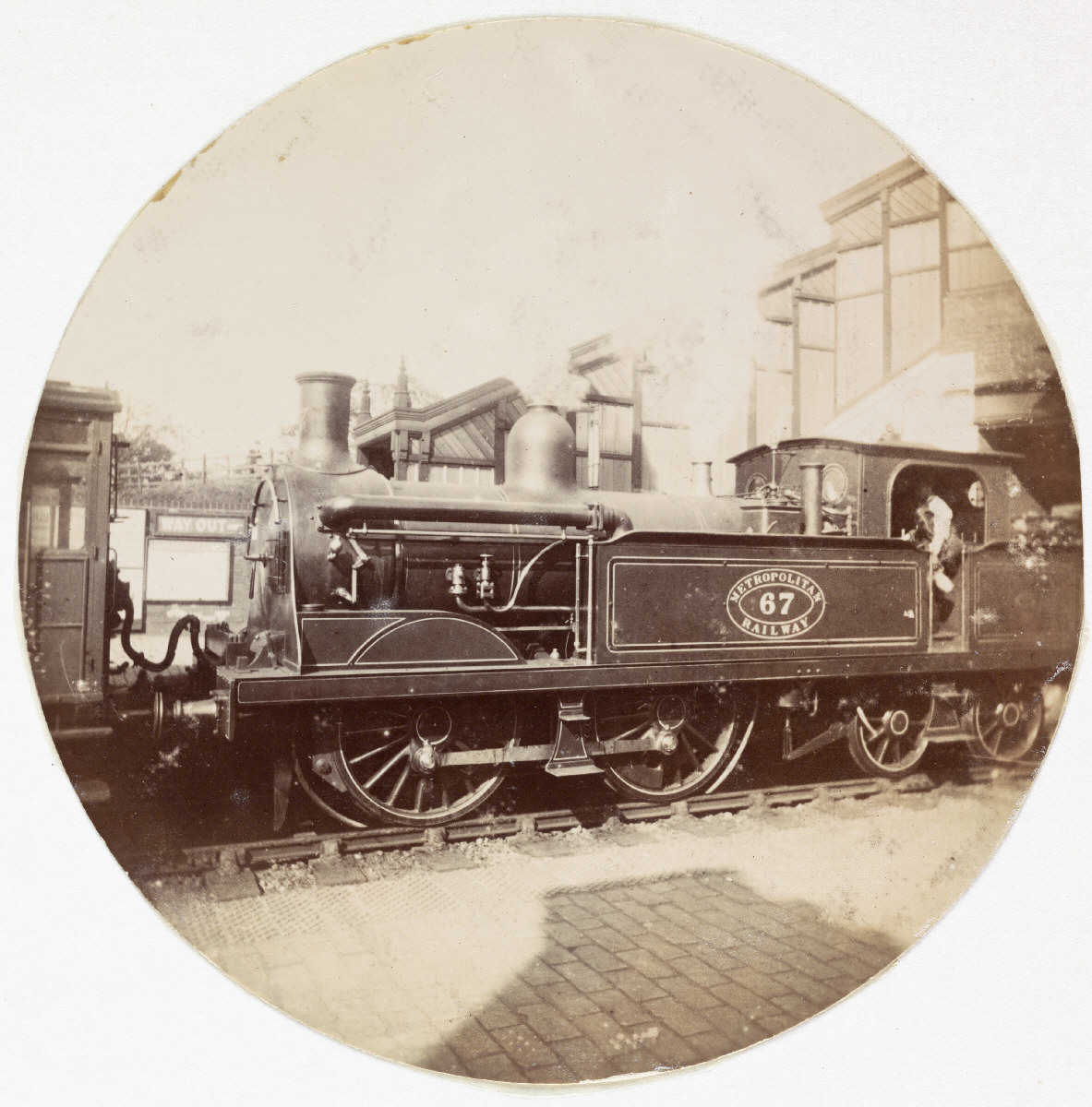 Metropolitan railway C class steam locomotive at Neasden, London, UK. Collection of National Media Museum/Kodak Museum We're happy for you to share this digital image within the spirit of The Commons. Certain restrictions on high quality reproductions of the original physical version of apply though; if you're unsure please visit the National Media Museum website. For obtaining reproductions of selected images please go to the Science and Society Picture Library.